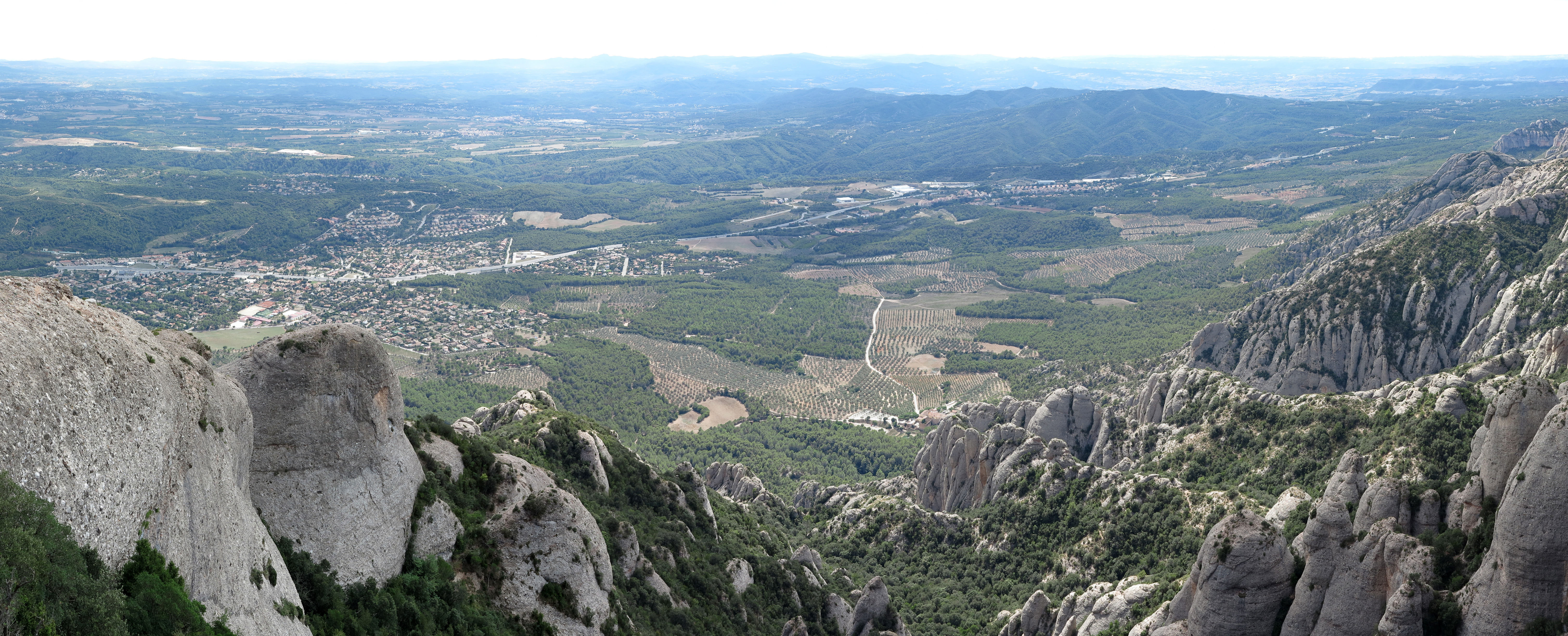 Montserrat panoramic, south-west view towards Collbató and El Bruc.